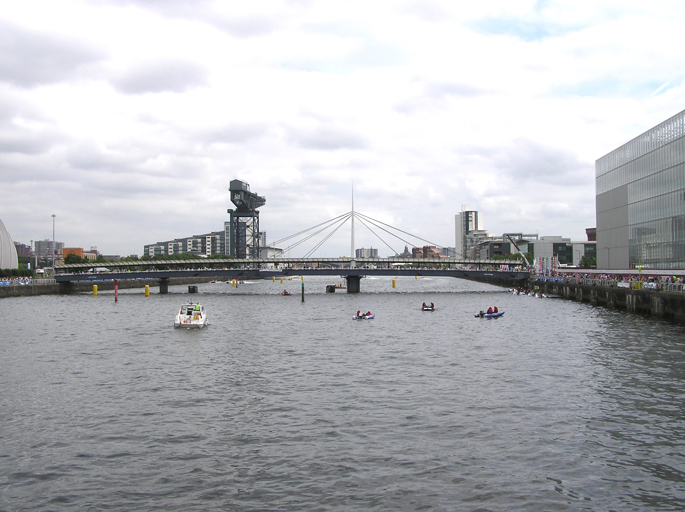 The Bells Bridge crossing the River Clyde in Glasgow, Scotland. Taken from the Glasgow Millennium Bridge looking eastward. The Finnieston Crane is visible on the left, and the square silver building on the right is the new headquarters of BBC Scotland.